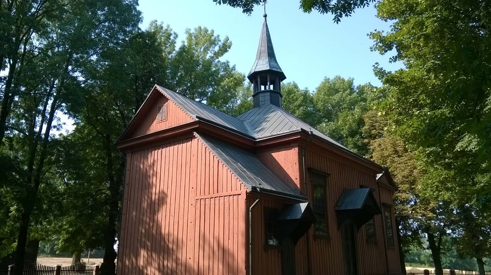 Church in Wiszniów